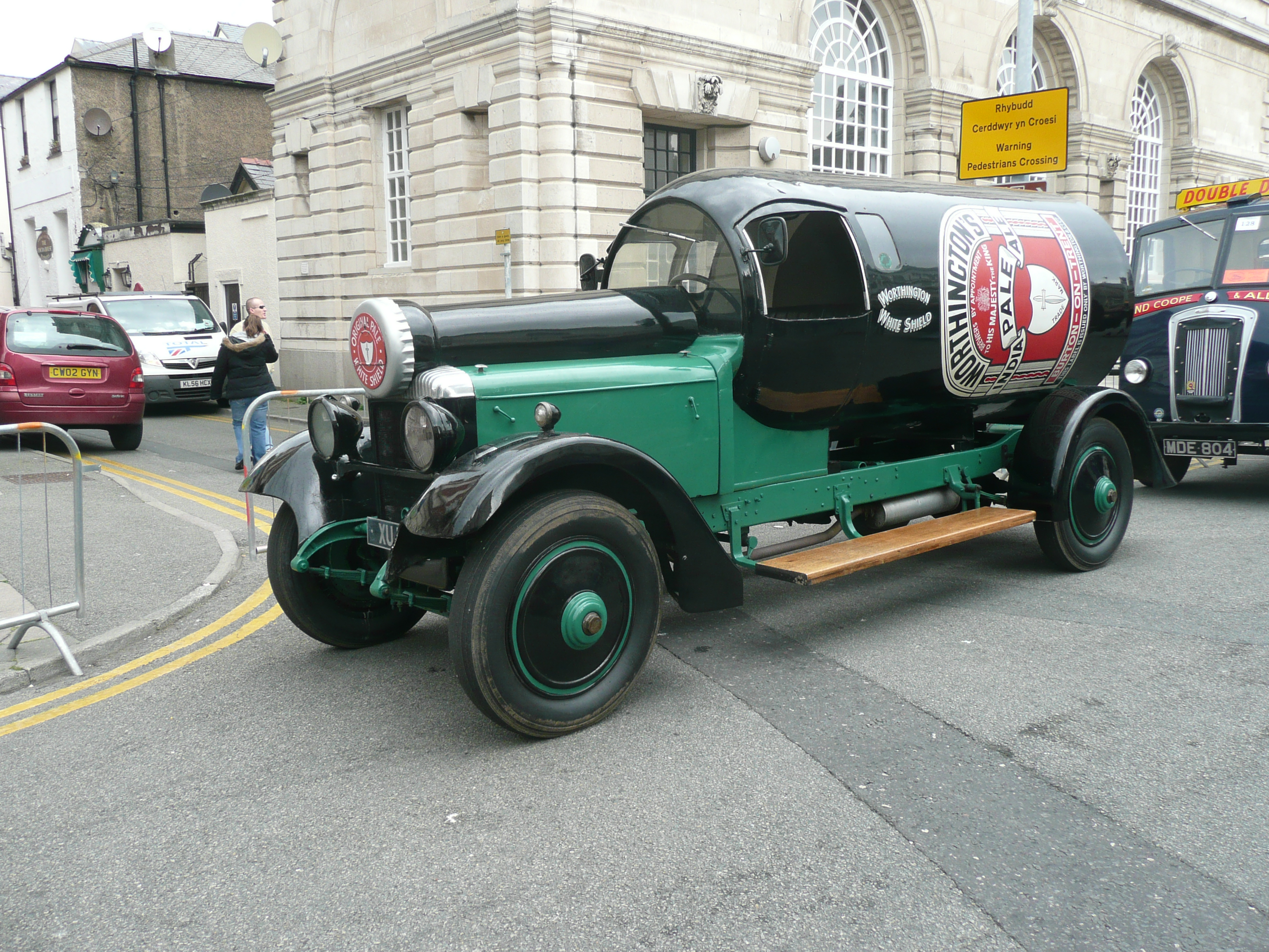 This car is part of the transport collection at the Coors Museum in Burton-onTrent. The museum in under threat of closure at the end of June 2008